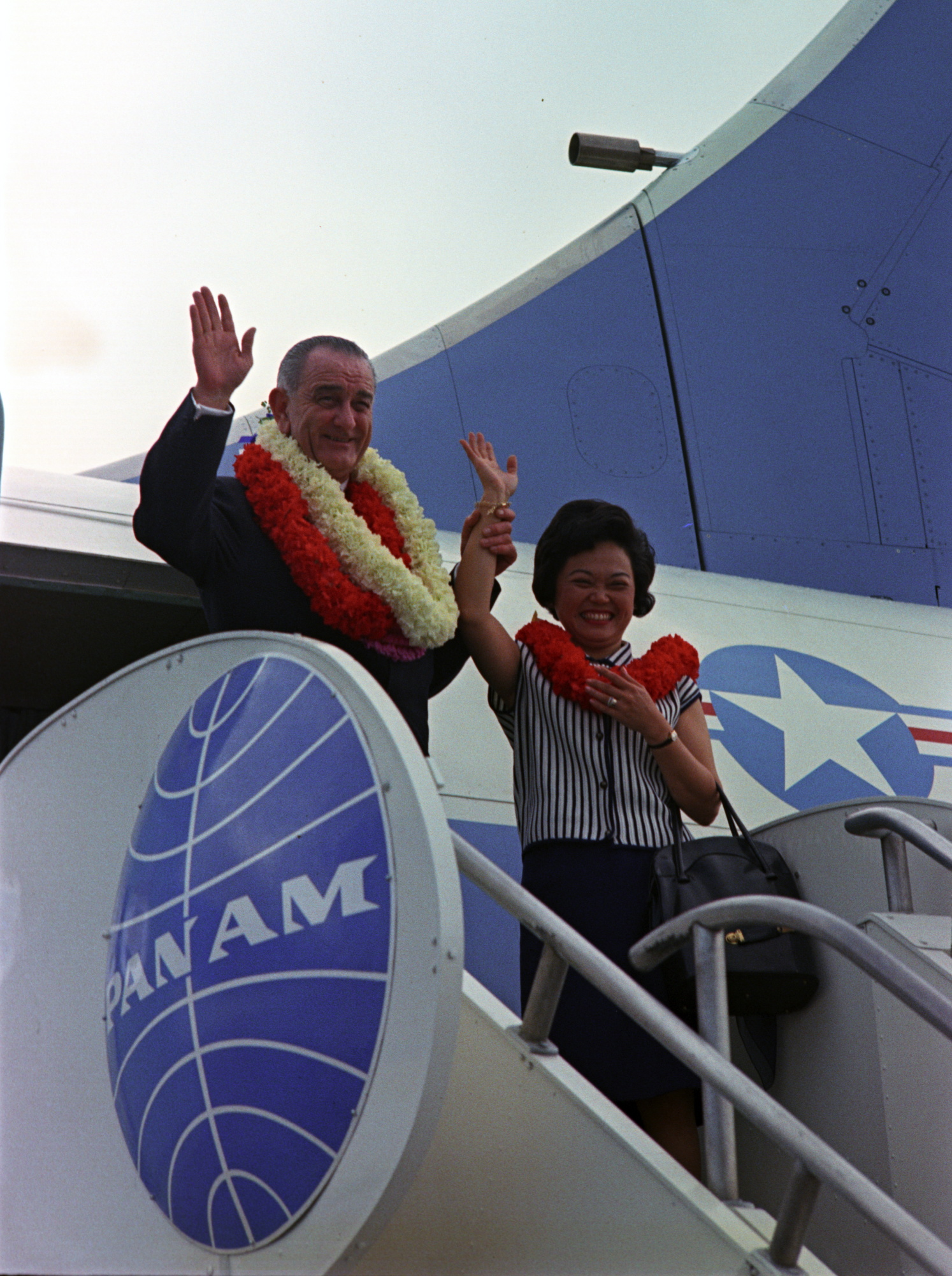 Congresswoman Patsy Mink of Hawaii stands next to President Lyndon B. Johnson at Honolulu International Airport before Johnson leaves Hawaii for Los Angeles.